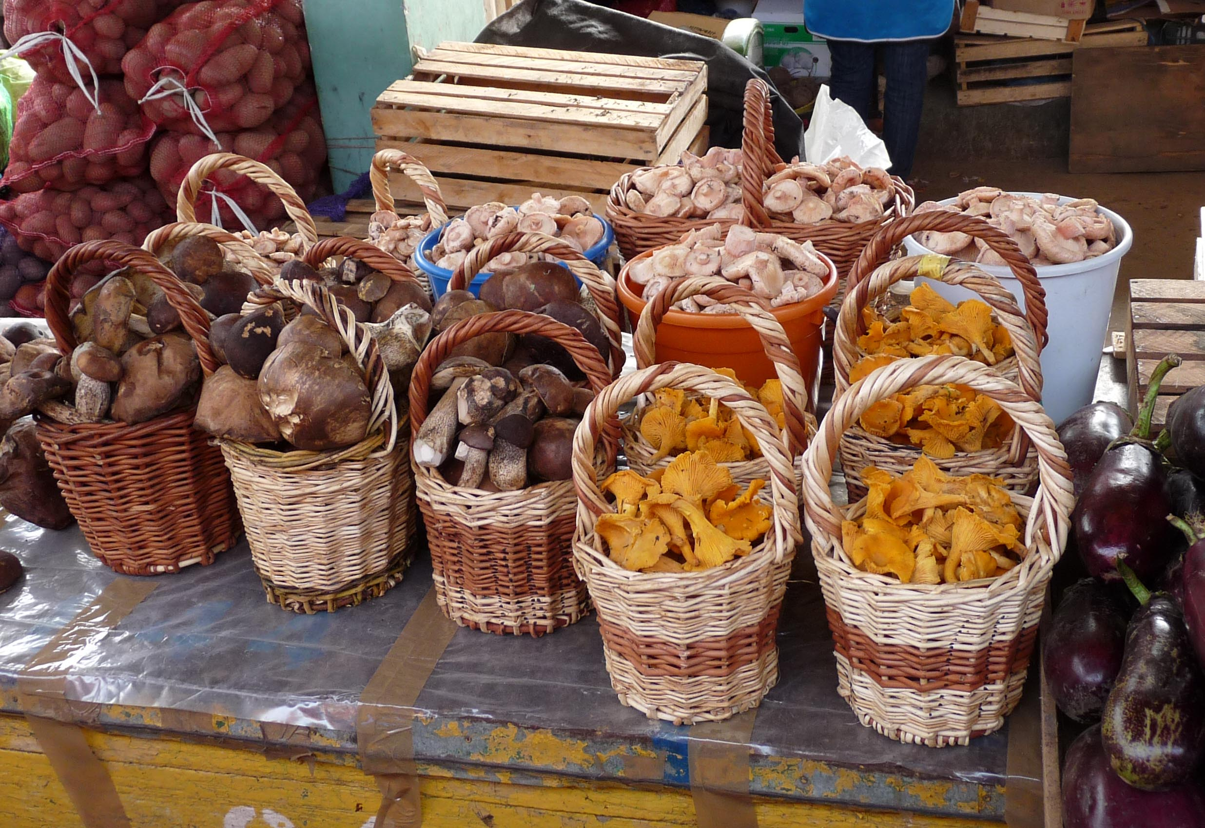 Kostroma Market 18 Mushrooms a1